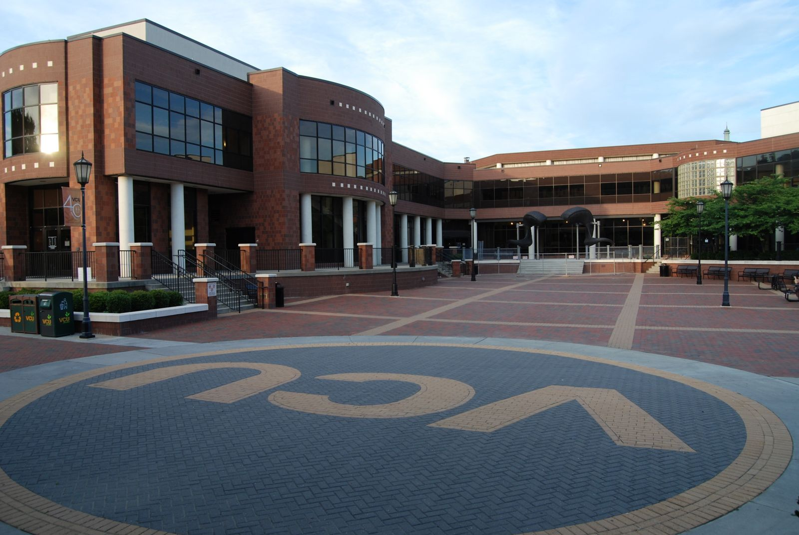 VCU student commons by Jeff Auth